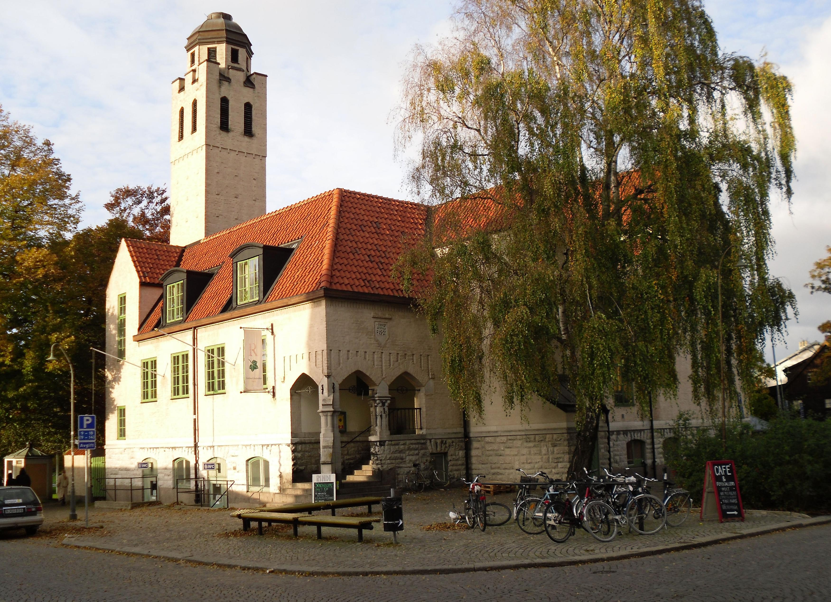 Rindiborgen, Visby, Sweden.